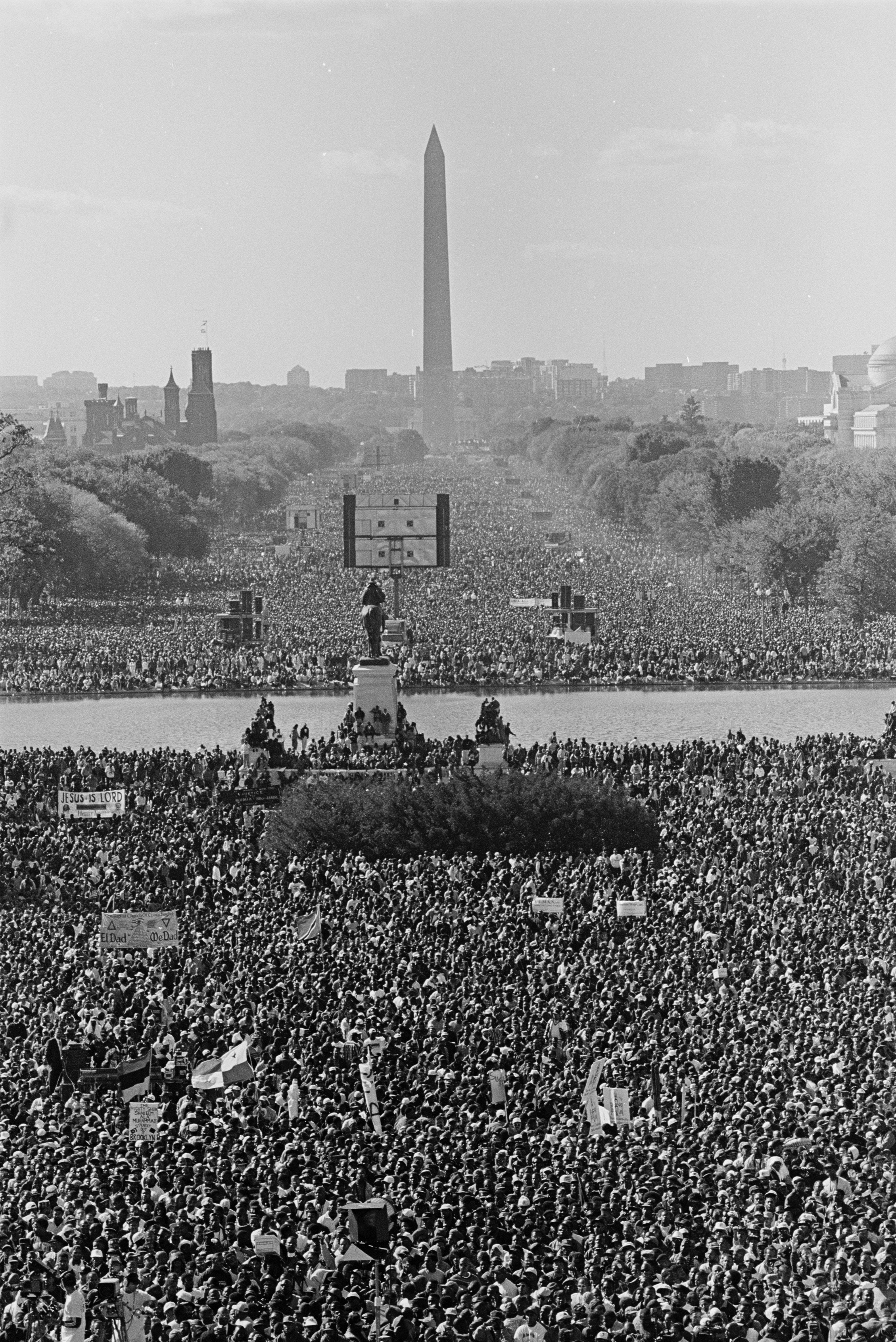 Read more about the collection in this Picture This blog post: Roll Call Photographs: Glimpsing Congress and Capitol Hill, 1988-2000 View images from the collection that have been digitized. [Aerial view of marchers on the National Mall during the Million Man March, looking towards the Washington Monument], [1995 Oct. 16] 1 photograph : negative ; film width 35mm (roll format). Notes: Title devised by Library staff. Date from caption information for contact sheet ROLL CALL-1995-841 or corresponding negative sleeve. Contact sheet available for reference purposes: ROLL CALL-1995-841, frame 4. Contact sheet or negative sleeve caption: "Million Man March". Forms part of: CQ Roll Call Photograph Collection. Subjects: Million Man March--(1995 :--Washington, D.C.) African Americans--Political activity--Washington (D.C.)--1990-2000. Crowds--Washington (D.C.)--1990-2000. Demonstrations--Washington (D.C.)--1990-2000. Format: Aerial views--1990-2000. Film negatives--1990-2000. Rights Info.: No known restrictions on publication. Repository: Library of Congress Prints and Photographs Division Washington, D.C. 20540 USA Higher resolution image is available (Persistent URL): Call Number: LC-RC15-1995-841, frame 4